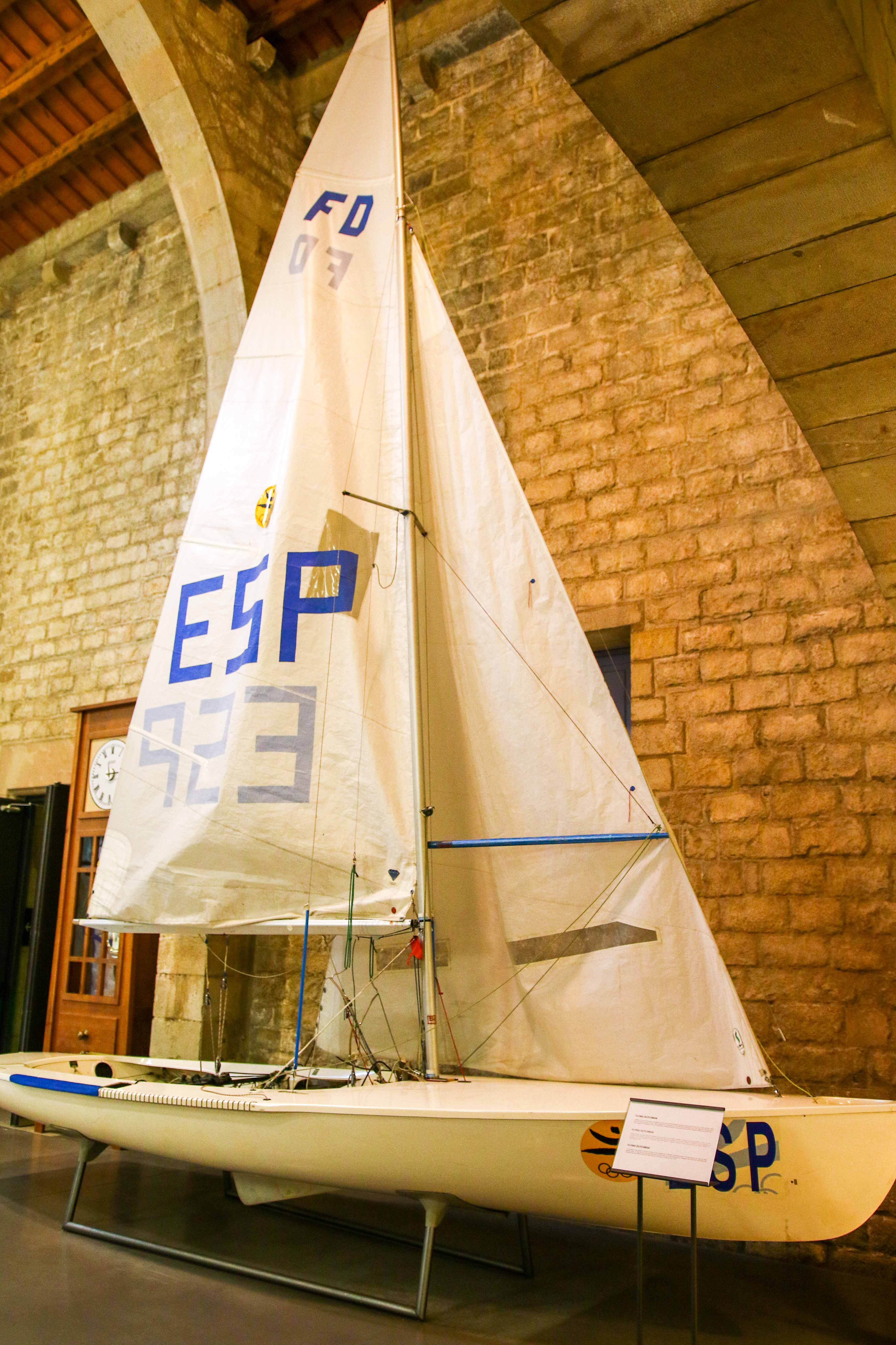 The Flying Dutchman - 20-foot one-design high-performance two-person monohull racing dinghy, won the 1992 Olympic Games in Barcelona, Maritime Museum of Barcelona.